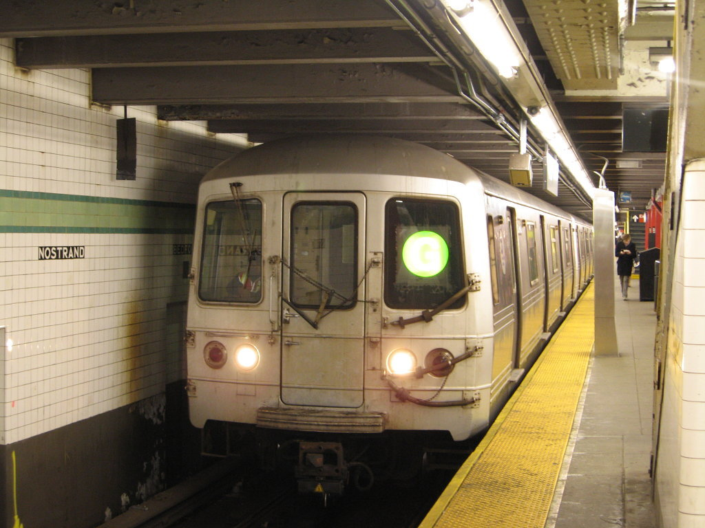 R46 train led by car #6248 at Bedford-Nostrand Avenue.